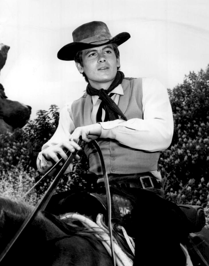 Photo of Christopher Jones as Jesse James from the television program The Legend of Jesse James.